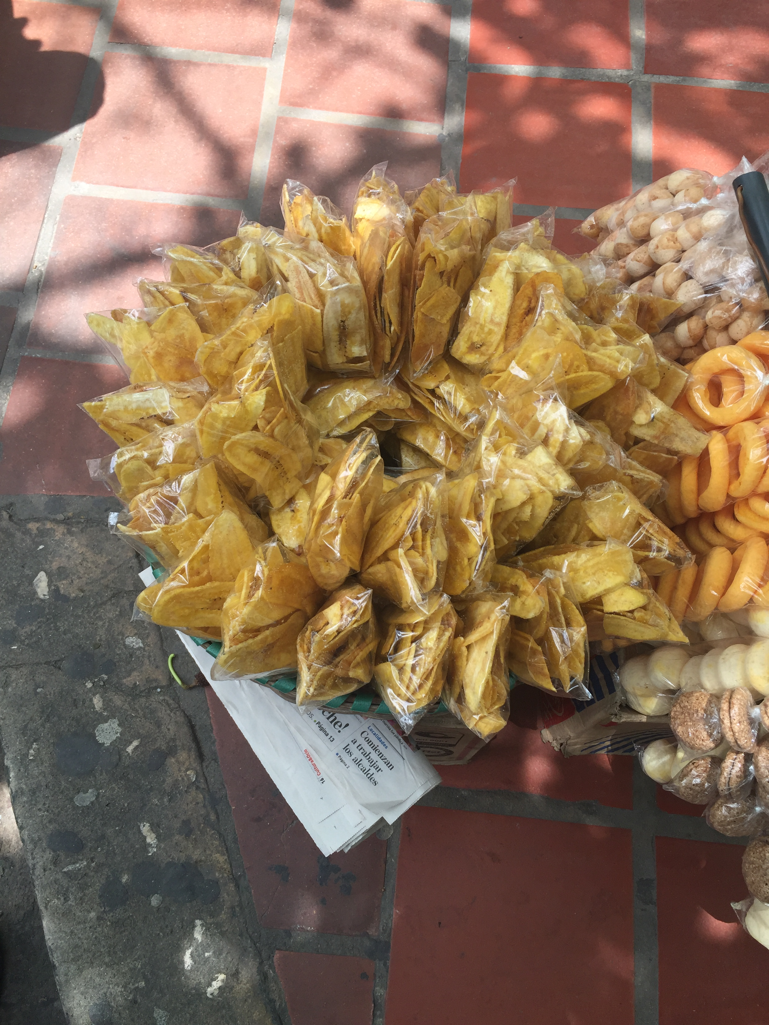 Platanitos